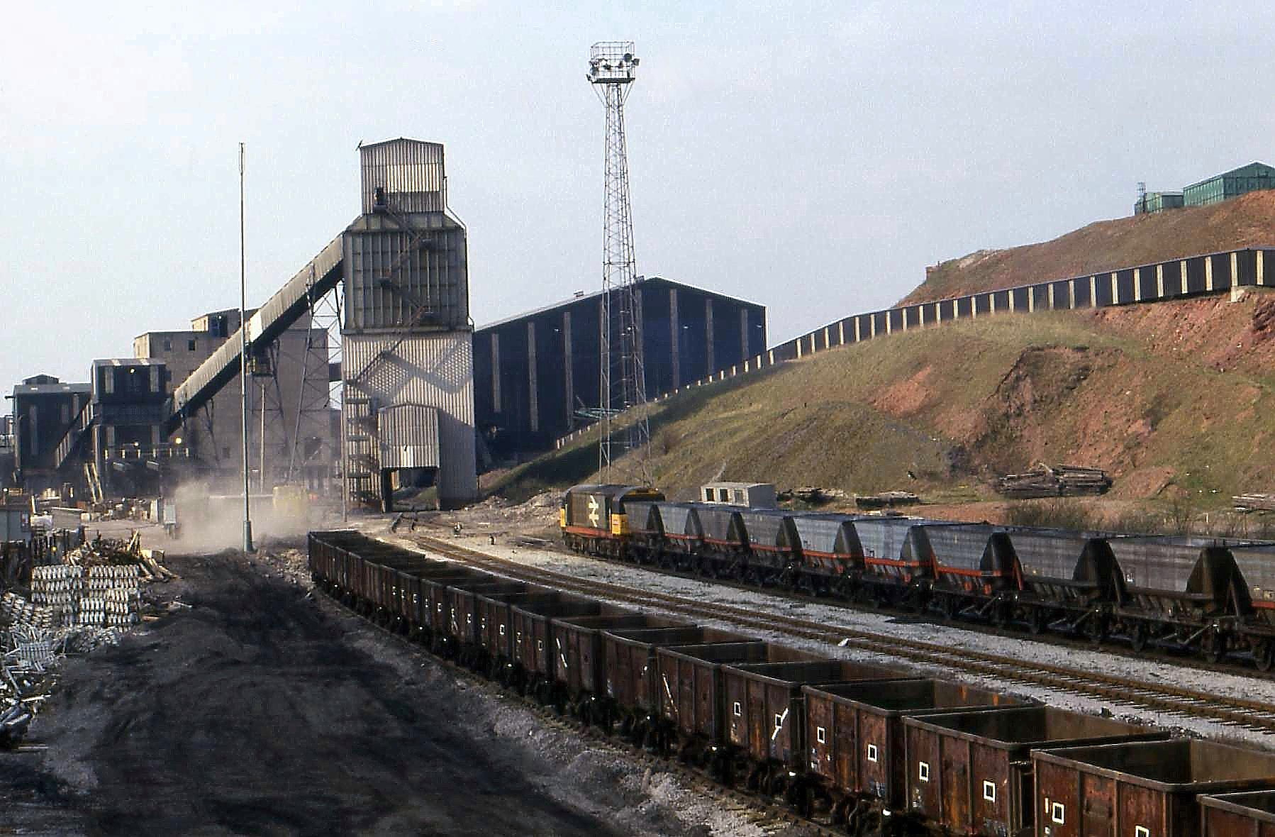 It,s hard to imagine that this massive structure has now gone.